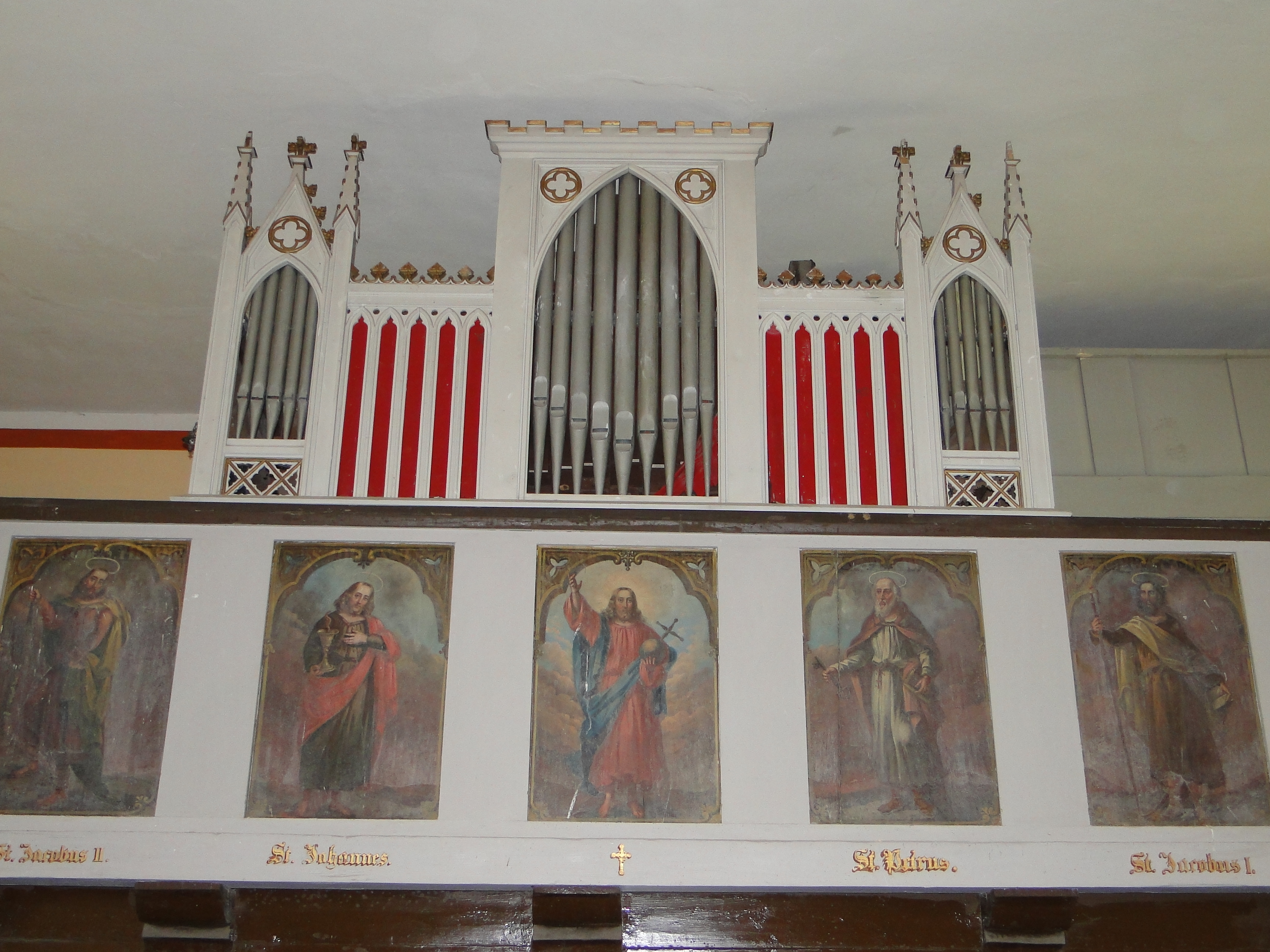 Church in Kladrum, district Ludwigslust-Parchim, Mecklenburg-Vorpommern, Germany